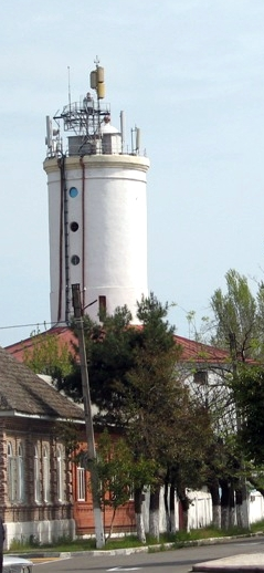 Lighthouse in Lankaran, Azerbaijan. Built in 1747-1786. Since 1869 - lighthouse.